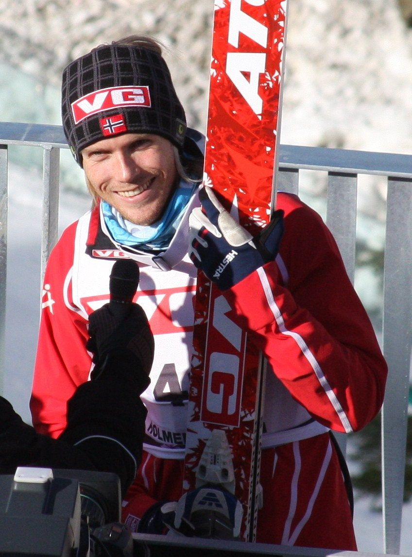 Björn Einar Romören, after 1st jump in WC Holmenkollen, Oslo 2010